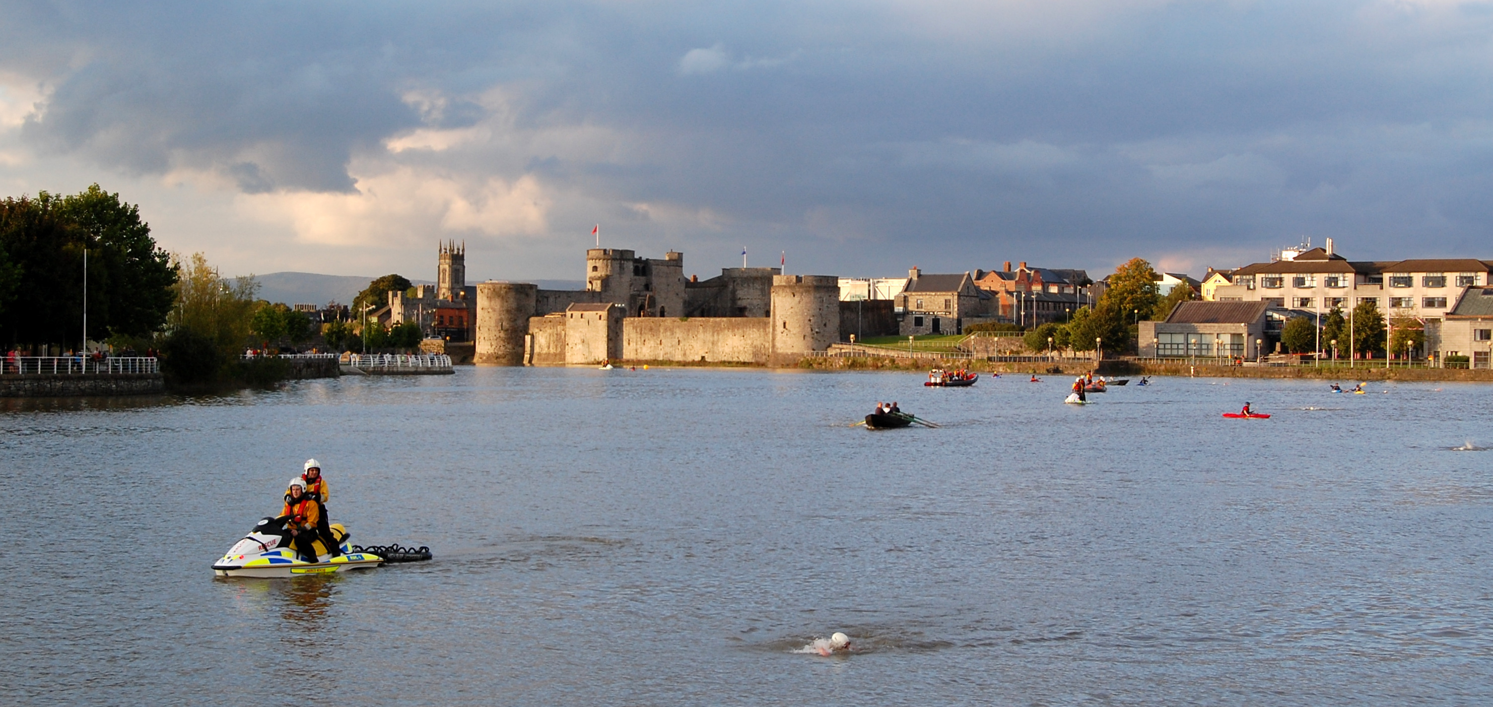 The 2010 Thomond Swim in the River Shannon, King John's Castle in Limerick City in the background